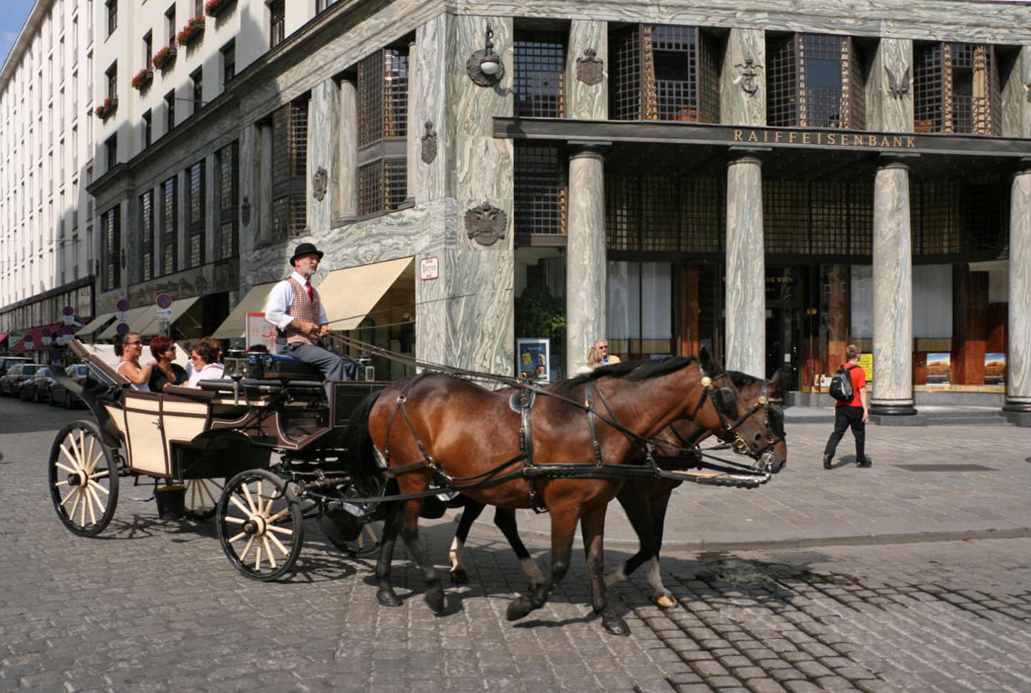 Horse drawn carriage with tourists turning from Herrengasse to Michaelerplatz in Vienna, Austria. Looshaus with Raiffeisenbank in background.